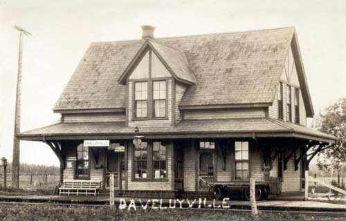 Canadian National Railway station, Daveluyville